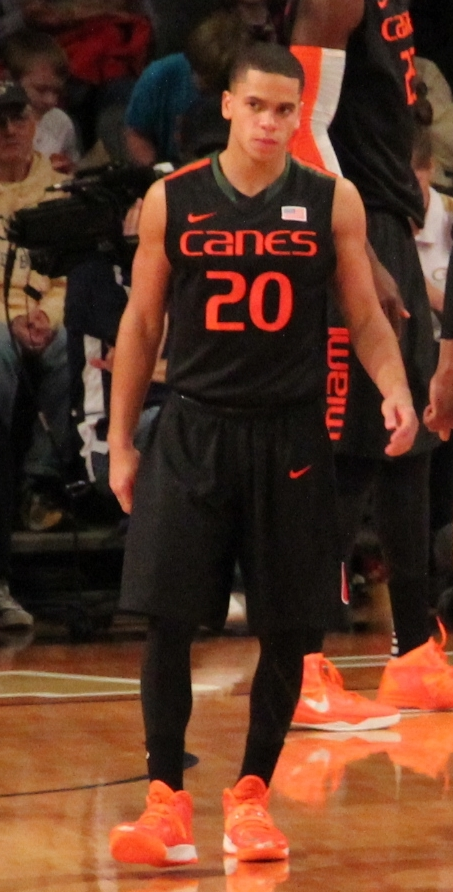 Georgia Tech Yellow Jackets vs University of Miami Hurricanes